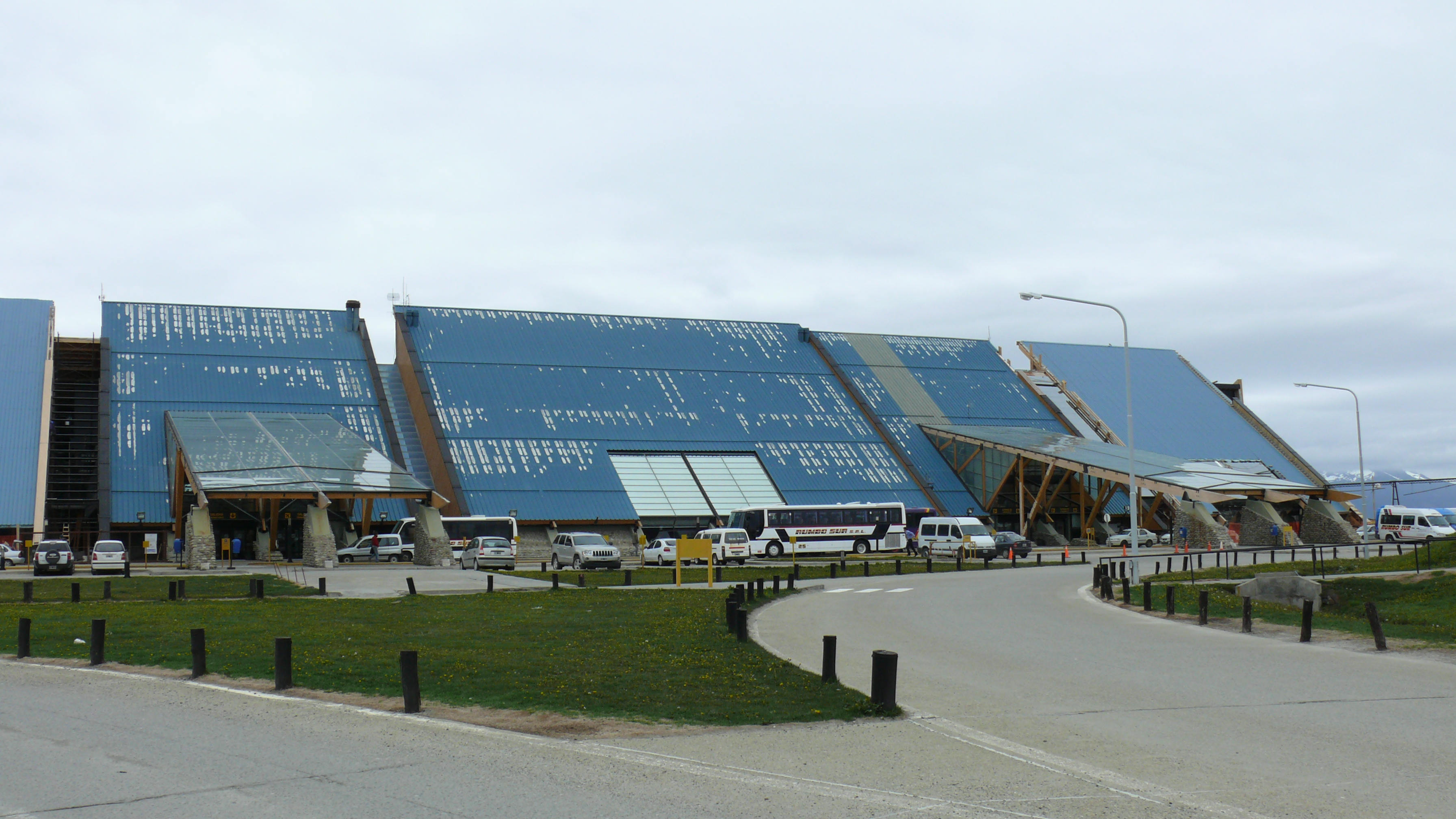 Ushuaia airport, main terminal